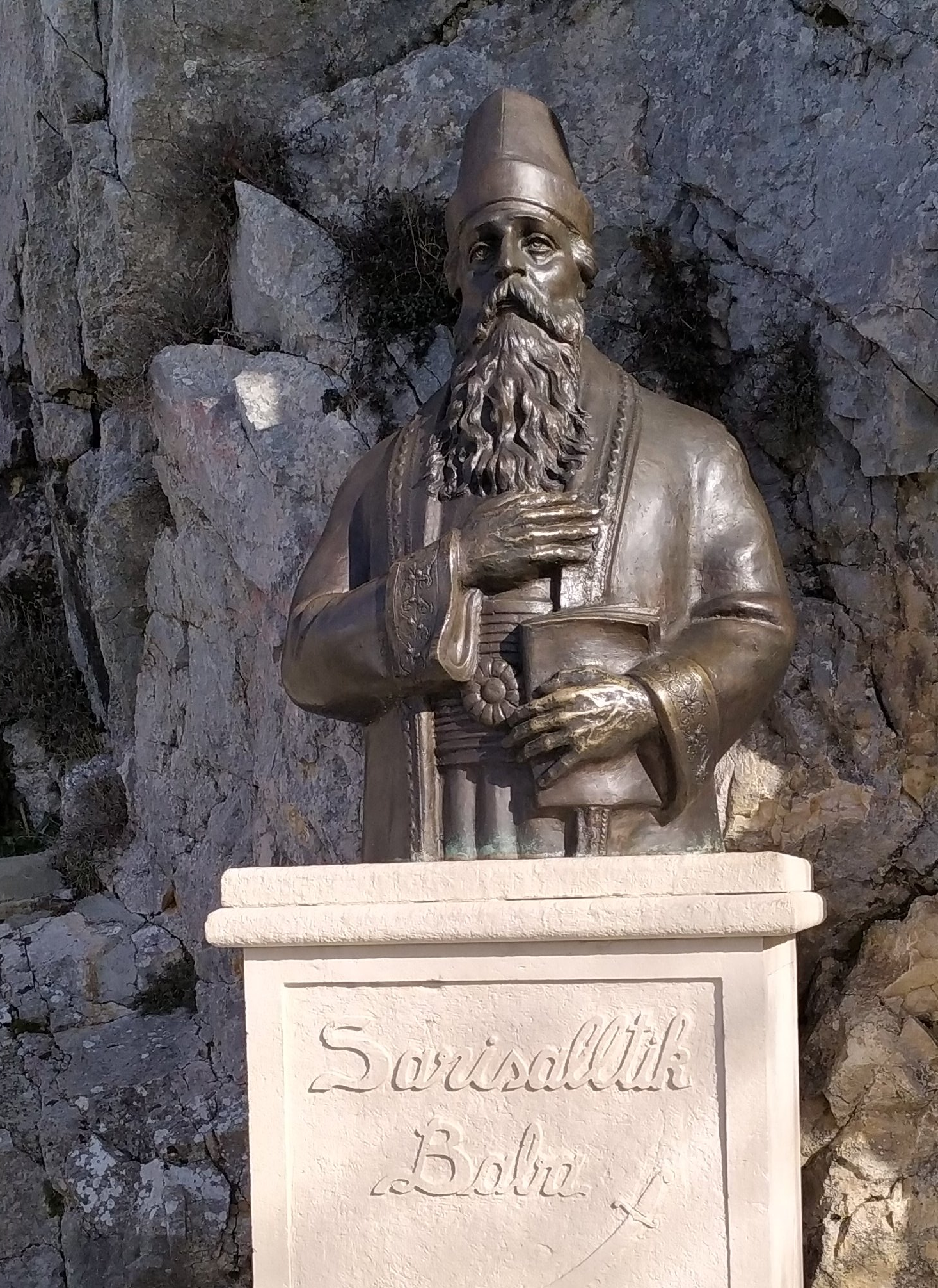 Sculpture of Sari Salltik in Kruja mountain